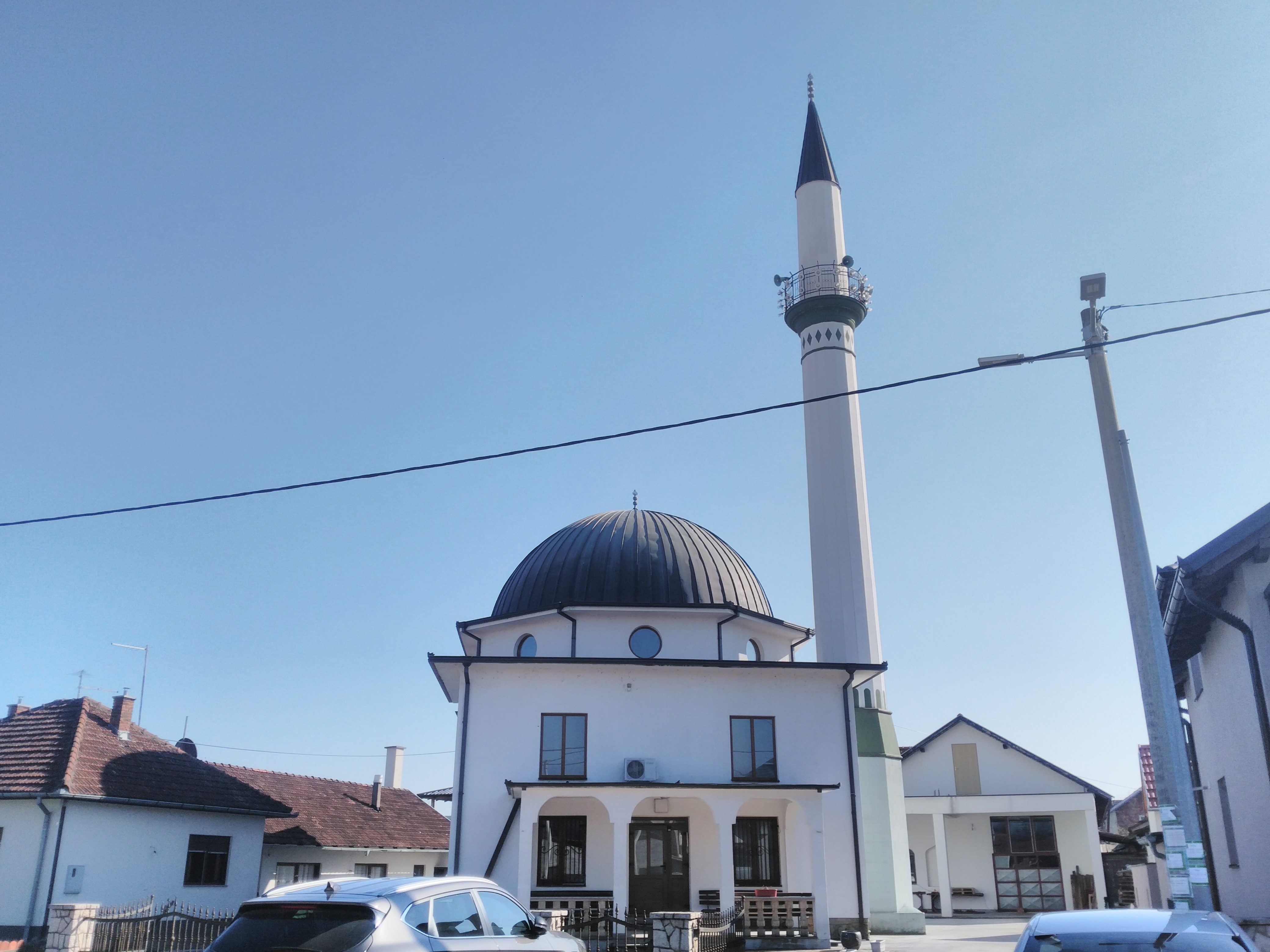 Mosque in the village of Gunja, Vukovar-Syrmia County is the oldest mosque in continual use in Croatia. Village and municipality is located just north of the Bosnian city of Brčko across the bridge over the Sava River. Majority of believers are ethnic Bosniaks some of which settled during the Yugoslav time.